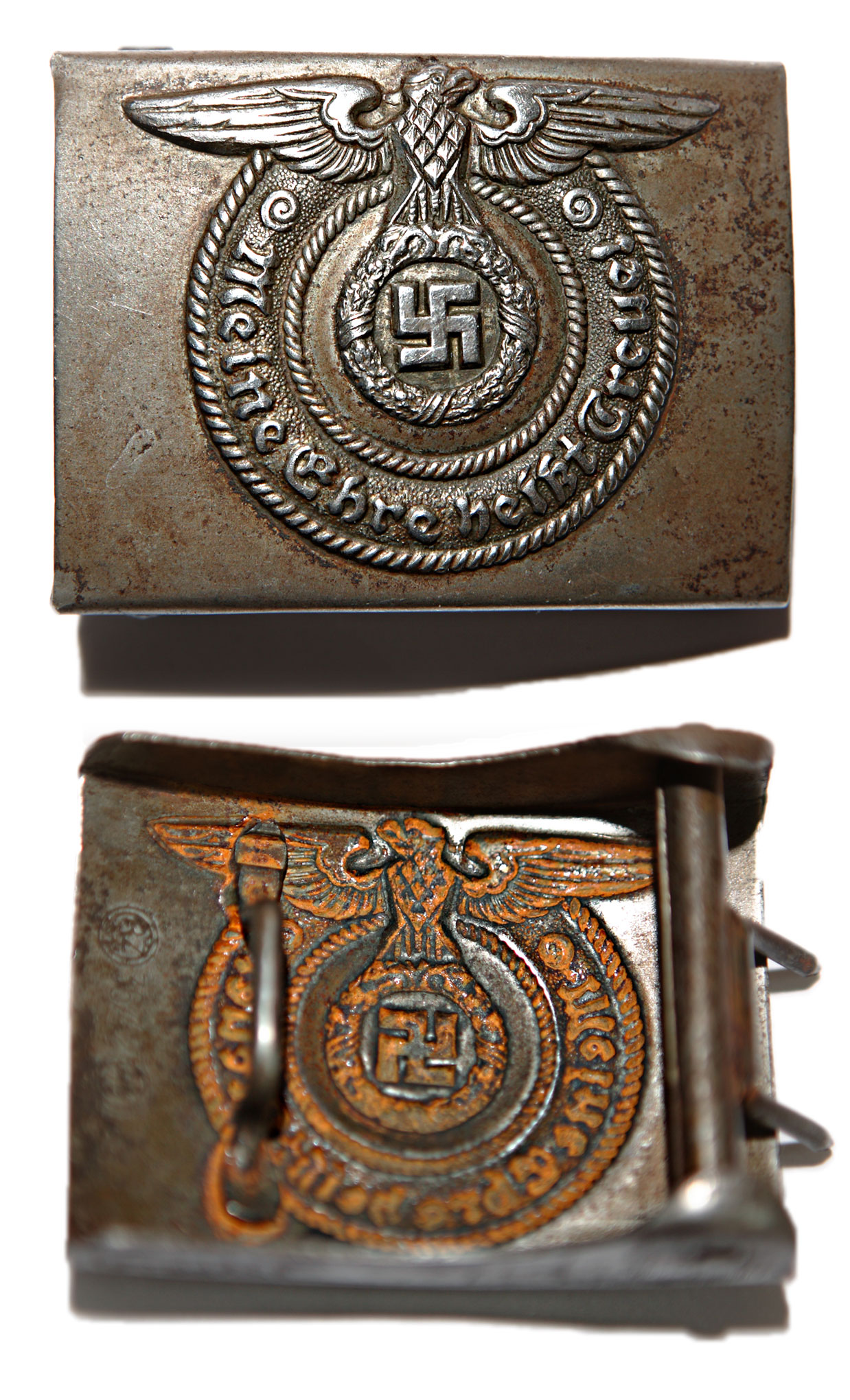 SS belt buckle “Meine Ehre heisst Treue”. Front and rear view.